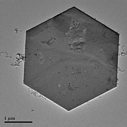 TEM imag of PbO Nanosheet